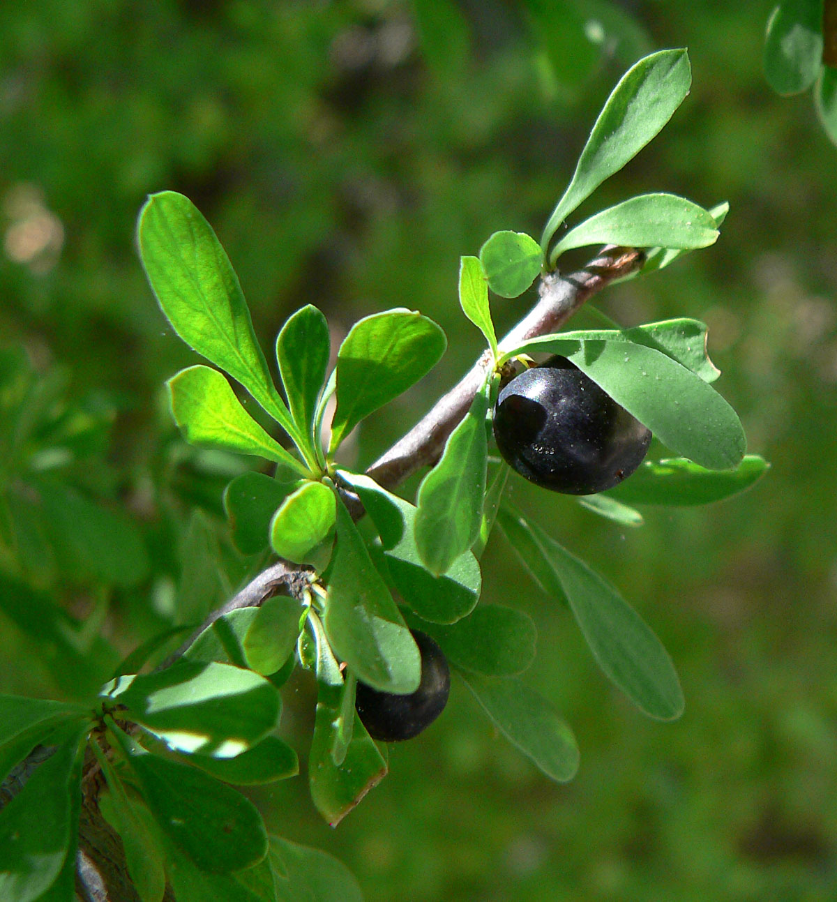 Condalia globosa at the Ethel M Botanical Cactus Garden, Las Vegas, Nevada